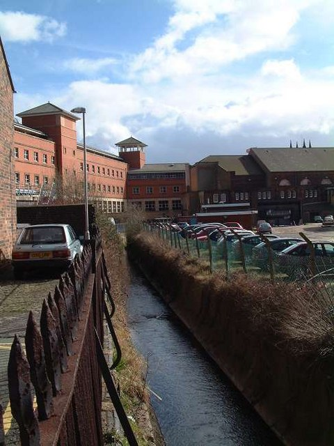 In Stoke-on-Trent, the Fowlea Brook or Stoke Fowlea Brook - is notably affected by pollution from the industrial areas through which it passes. It enters the city near Goldendale pools and is then culverted for most of its length through Longport and Etruria to Stoke, where it joins the River Trent. To the far left is the rear of the Stoke Civic Centre and to the right is the rear yard of Spode Pottery Works